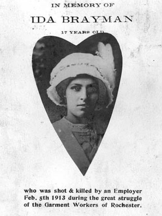 Memorial card for Ida Braiman (spelled alternately Brayman, Breiman, Braeman), killed during the 1913 Rochester Garment Workers Strike